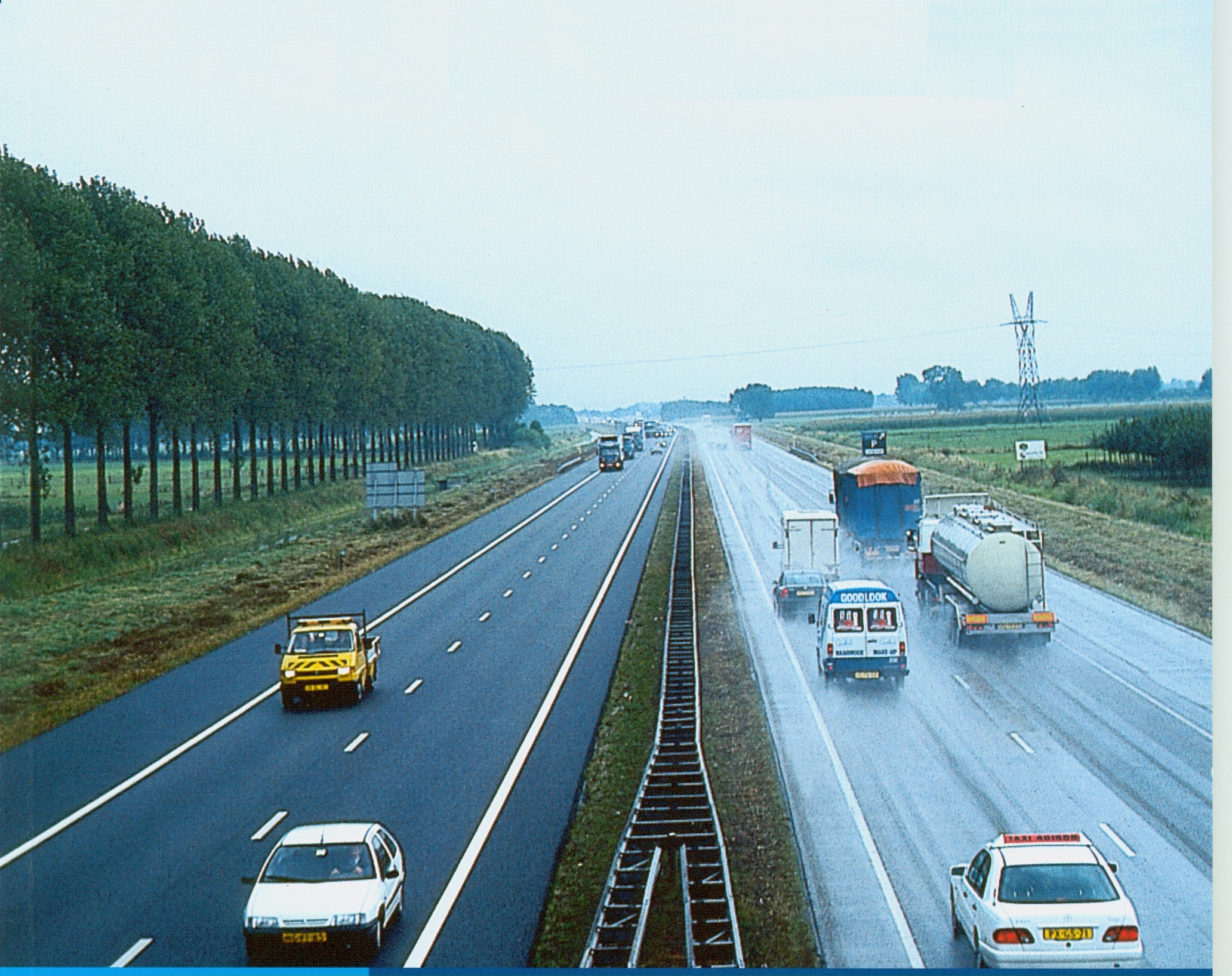 Porous asphalt (l) and dense asphalt (r) after rain